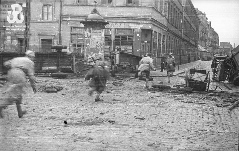 Patrol of Stanisława Jankowski's "Agaton" platoon from the "Pięść" Battalion of the Armia Krajowa running across Chłodna Street in the Wola district of Warsaw. The building in the background is Chłodna 43 / Wronia 56.